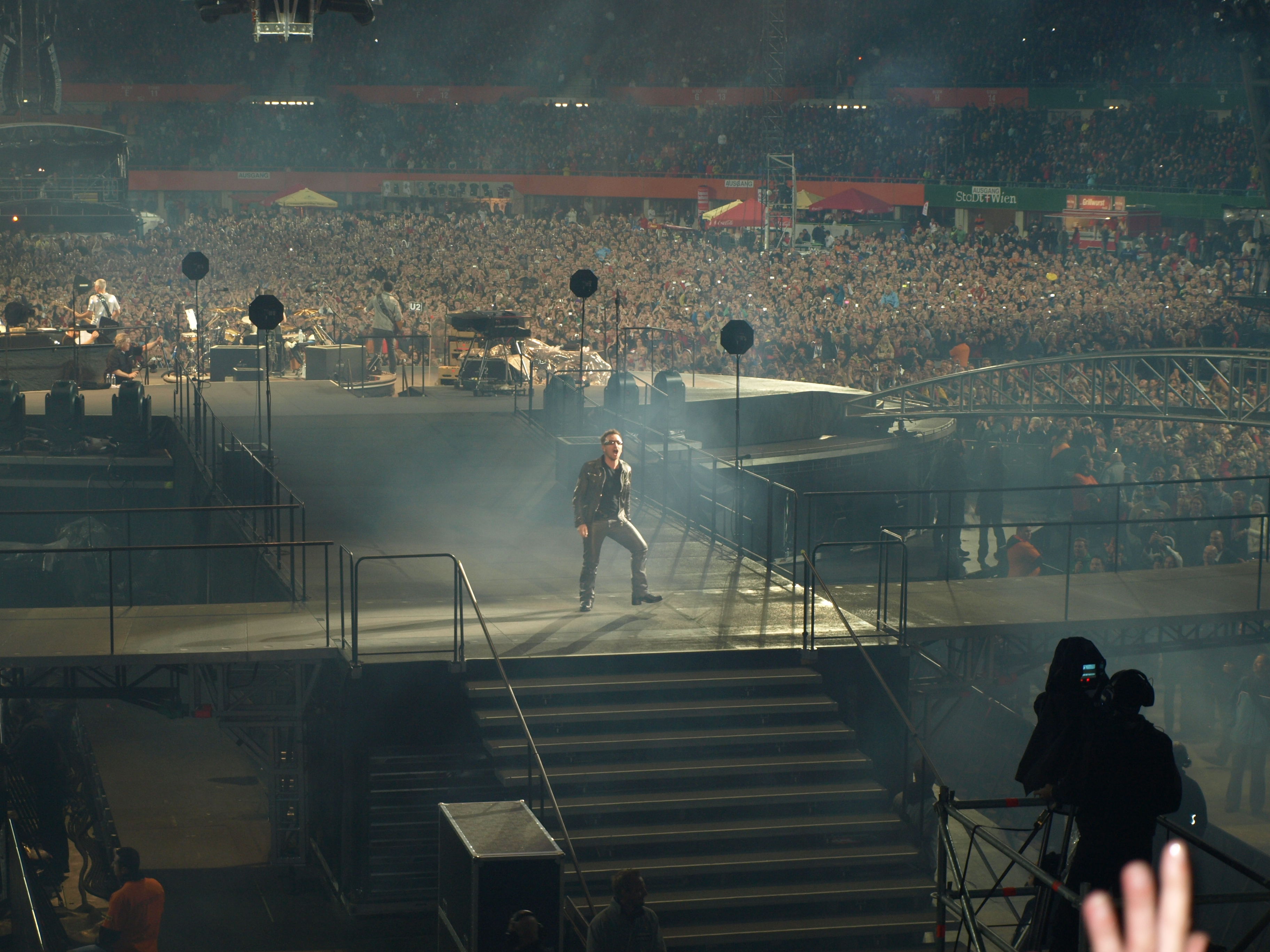 Bono performing in Vienna, Aug. 30th, 2010.